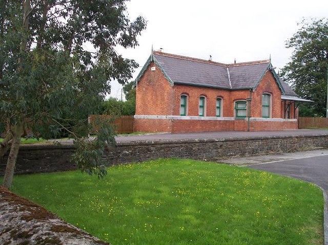 Upton station, Co.Cork. After following the Owenboy River west for some distance the Cork Bandon & South Coast Railway gradually turned south in order to join the valley of the Bandon River. This is Upton station which was midway between Ballinhassig and the town of Bandon.